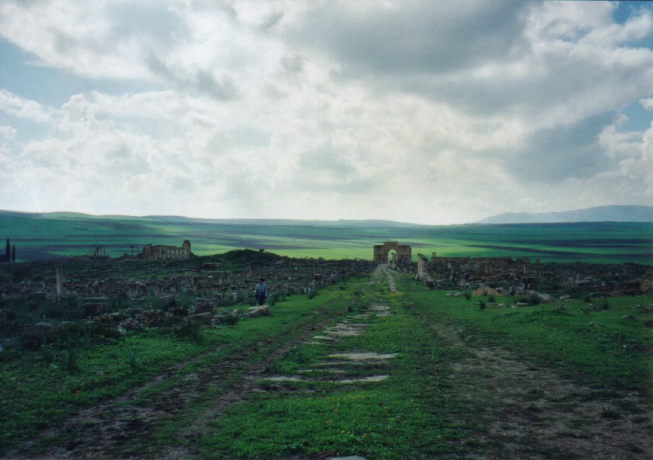 Volubilis is the best preserved roman ruins in Morocco